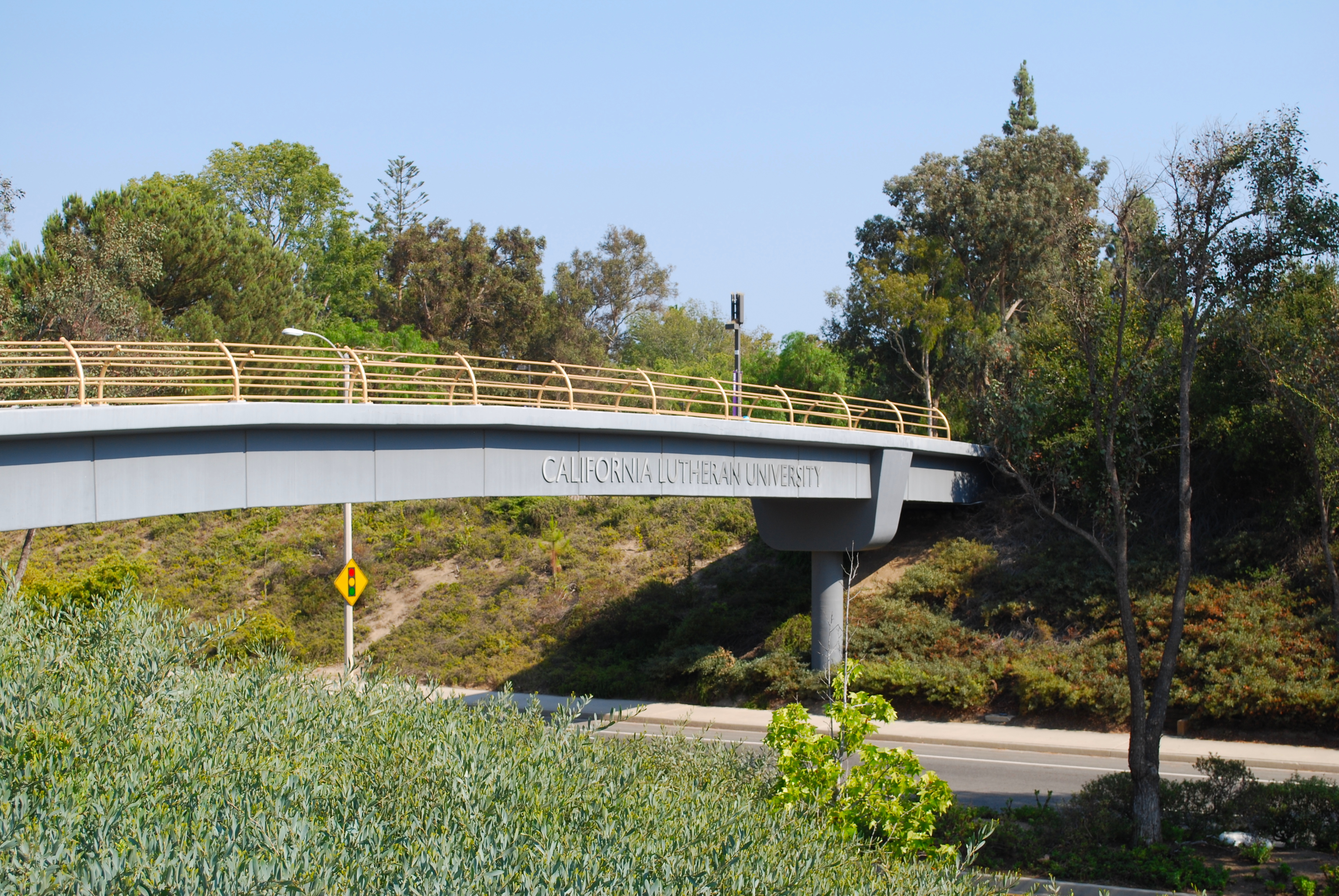 Luedtke Bridge, pedestrian bridge over Olsen Road at California Lutheran University (CLU) in Thousand Oaks, CA.